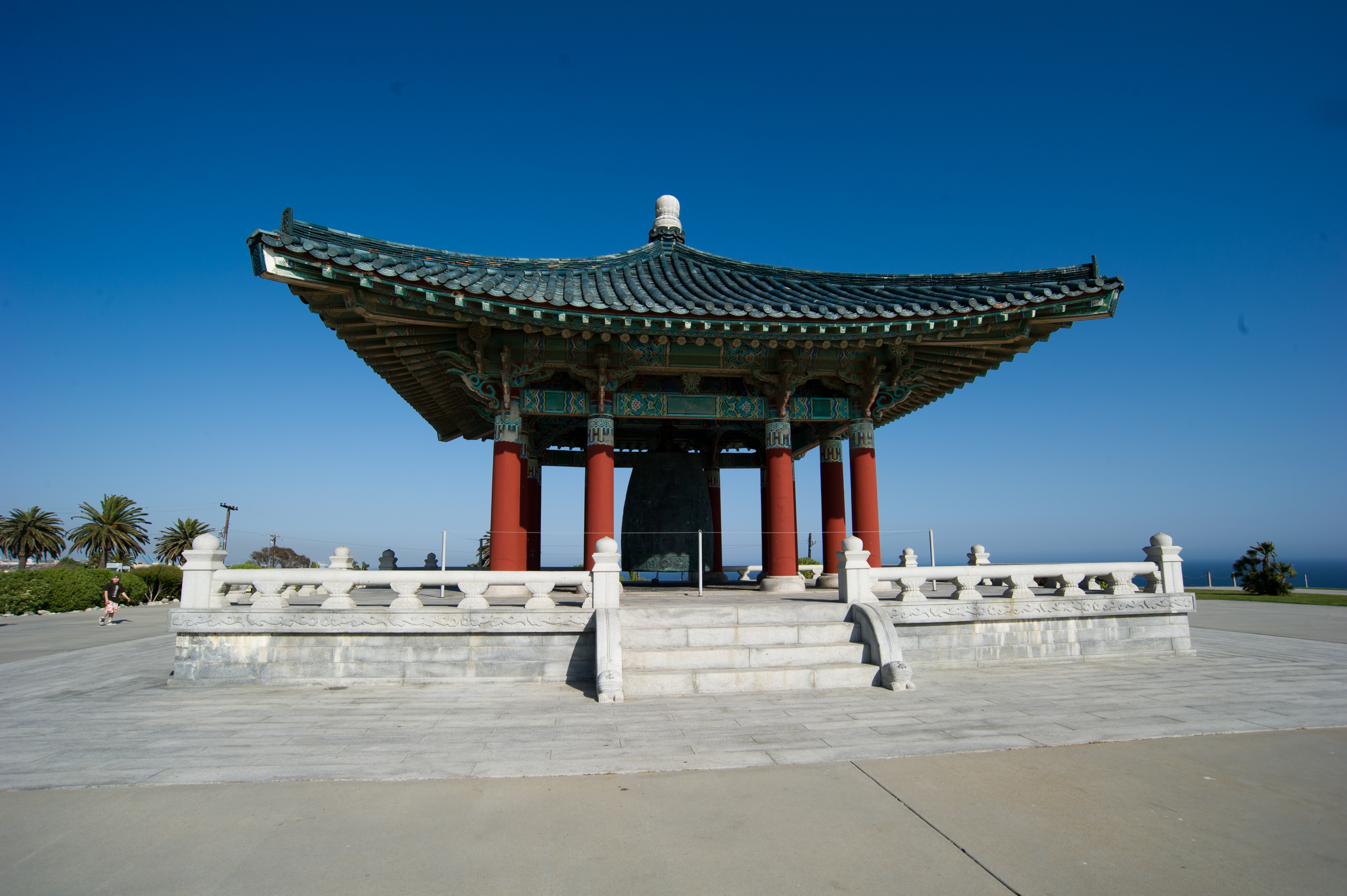 Photo of the Korean Bell of Friendship in San Pedro, Los Angeles, California.